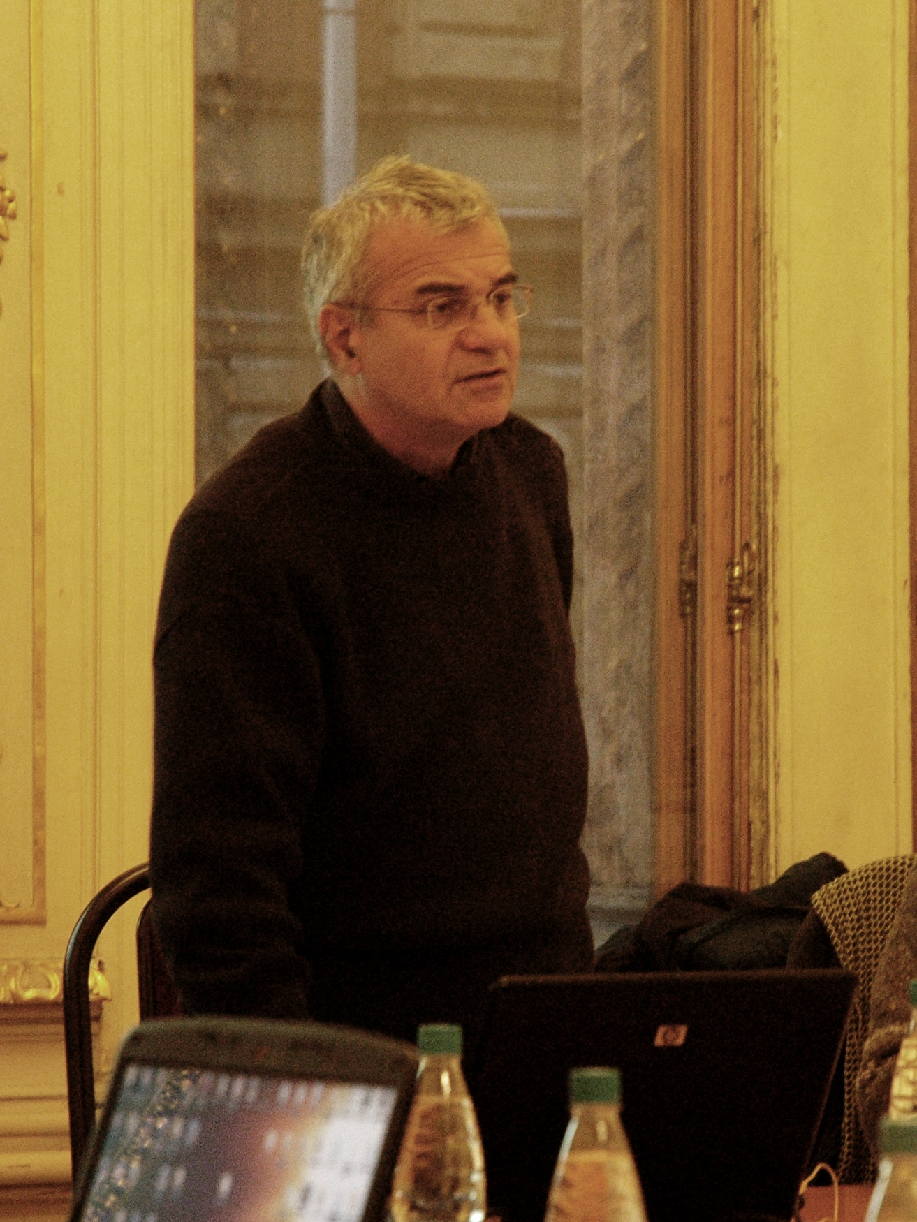 Harry Collins a sociologist of Science at an STS Workshop in the European University at St Petersburg